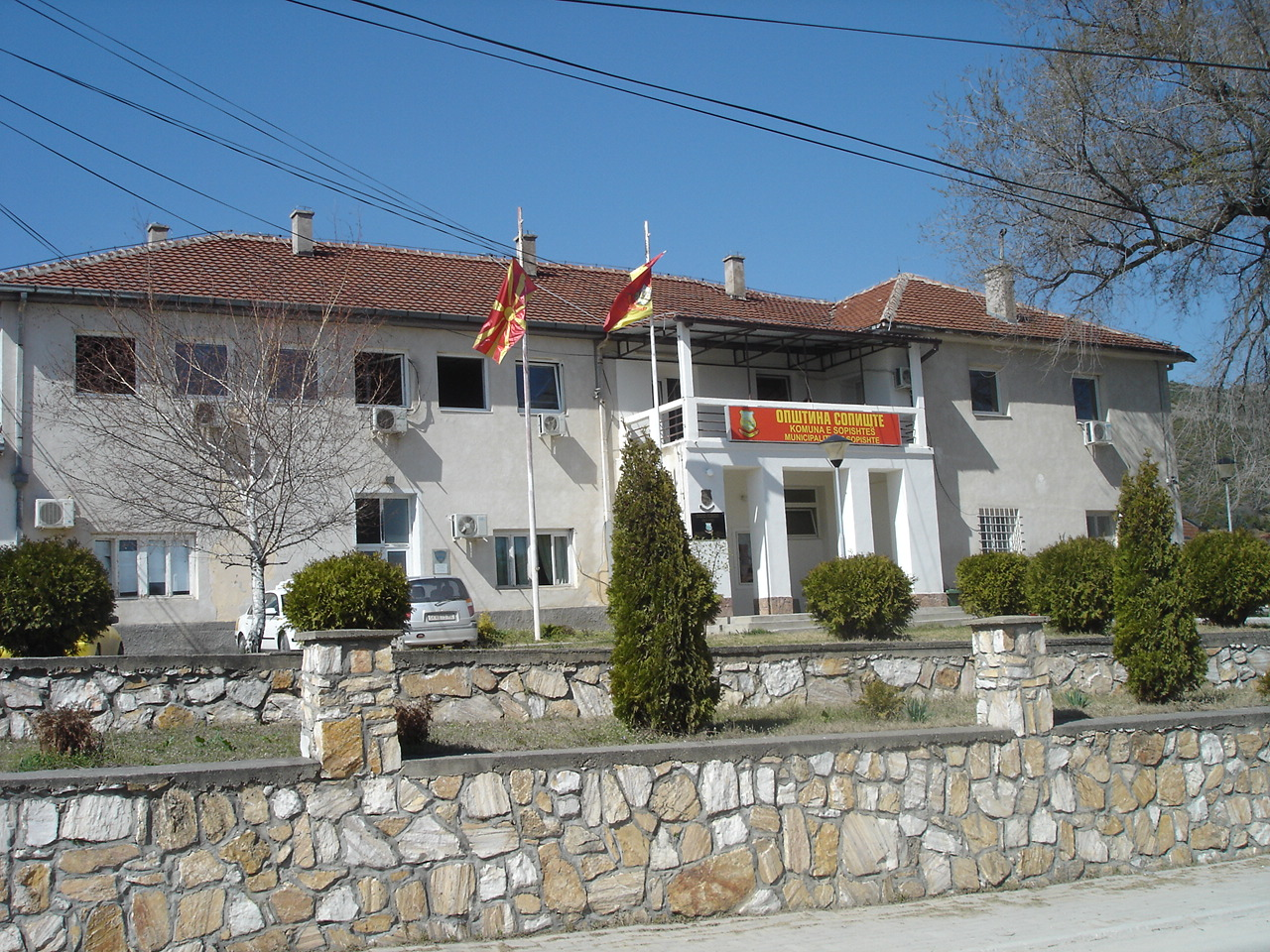 Building of the Municipality of Sopishte, Macedonia